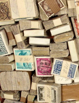 Paper bands bundlewared old postage stamps of Third Reich and Austria.